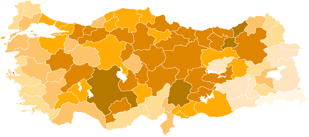 Vote shares obtained by the AKP in the Turkish general election of 2015